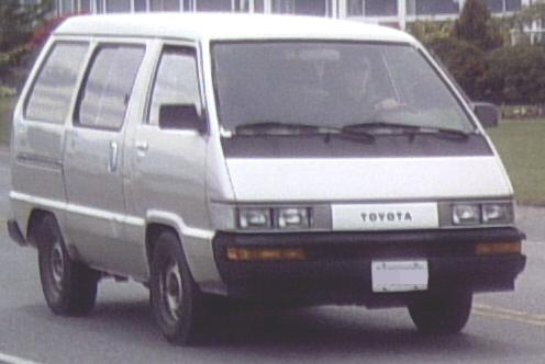 1984-1989 Toyota Van photographed on Vancouver Island, British Columbia, Canada.